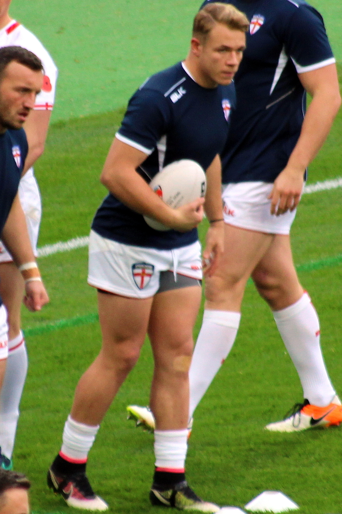 Josh Hodgson